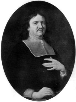 Henry Oldenburg (c.1618 - 1677)